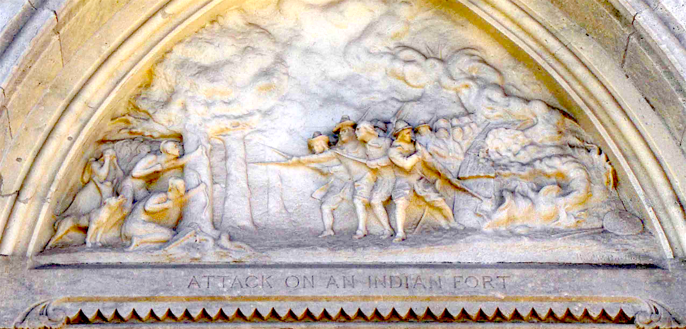 Temporary Plaster Monument